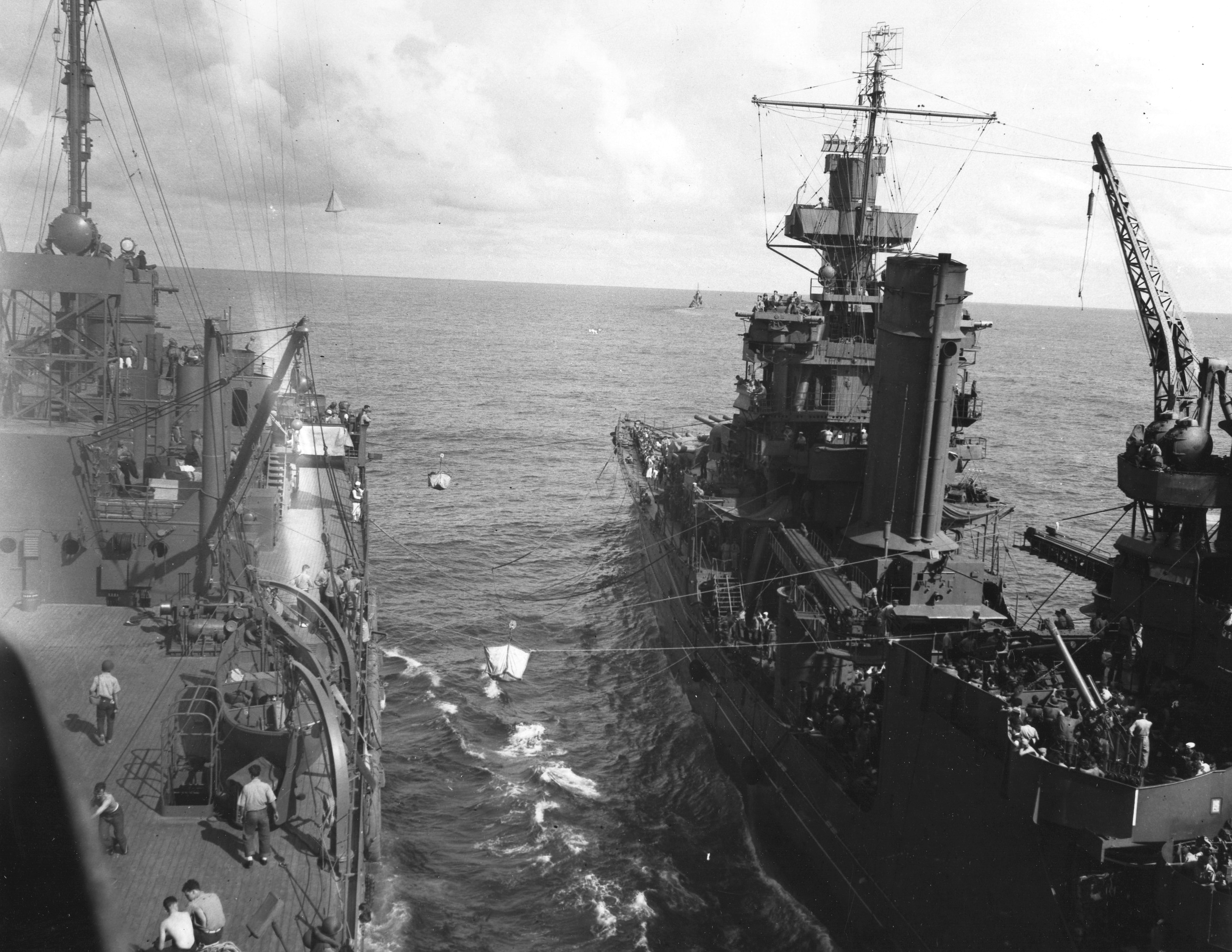 The U.S. Navy heavy cruiser USS Portland (CA-33), right, transfers survivors of the aircraft carrier USS Yorktown (CV-5) to the submarine tender USS Fulton (AS-11), left, on 7 June 1942, following the Battle of Midway. Fulton transported the men to Pearl Harbor.